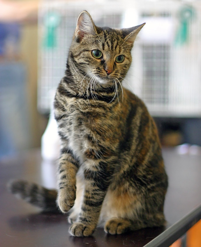 Femelle European shorthair in Helsinki cat show Silkkiturkin Kaunotar [EUR f 22] EX2